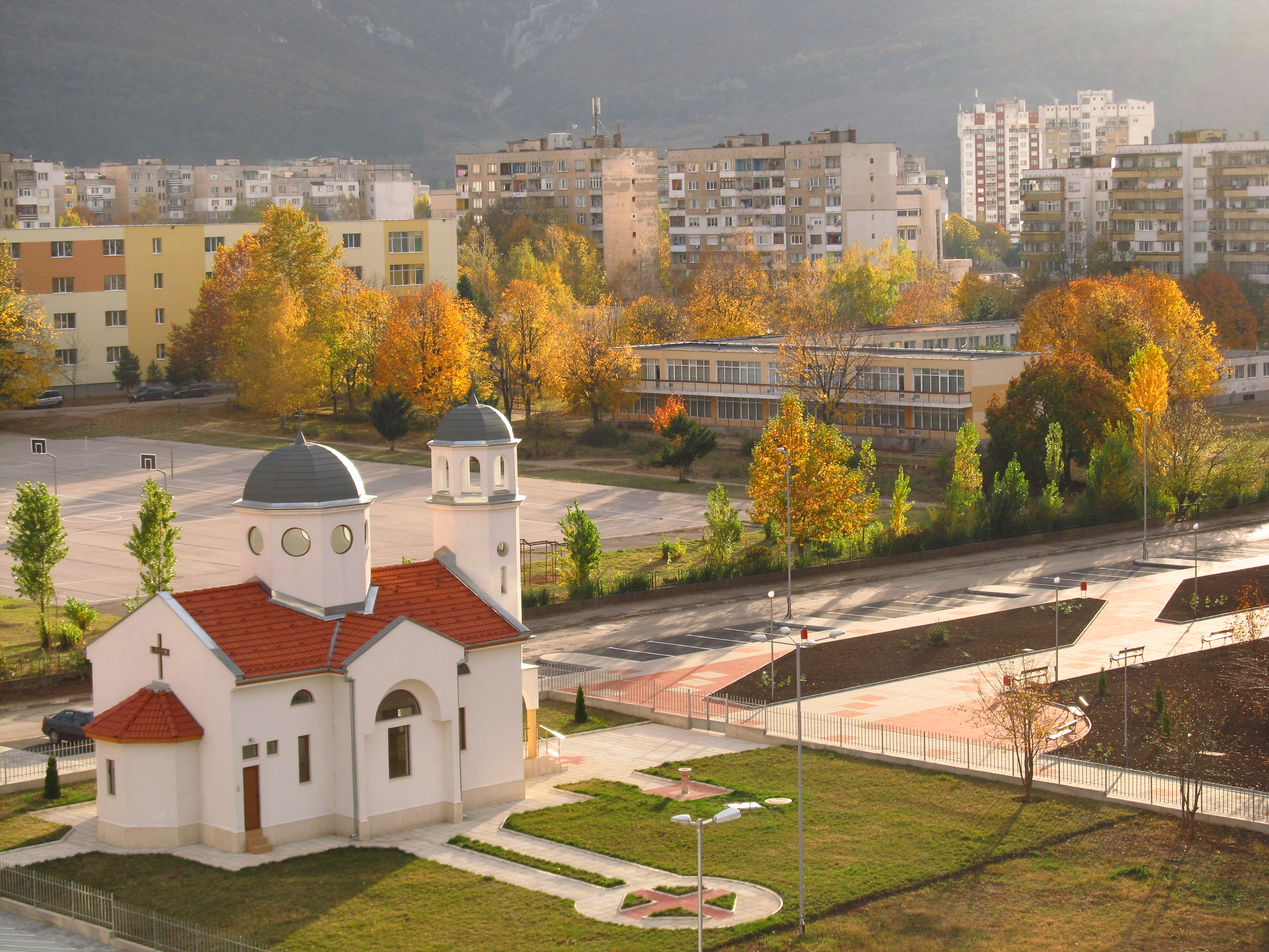 Храм " Св.Мина " - Враца